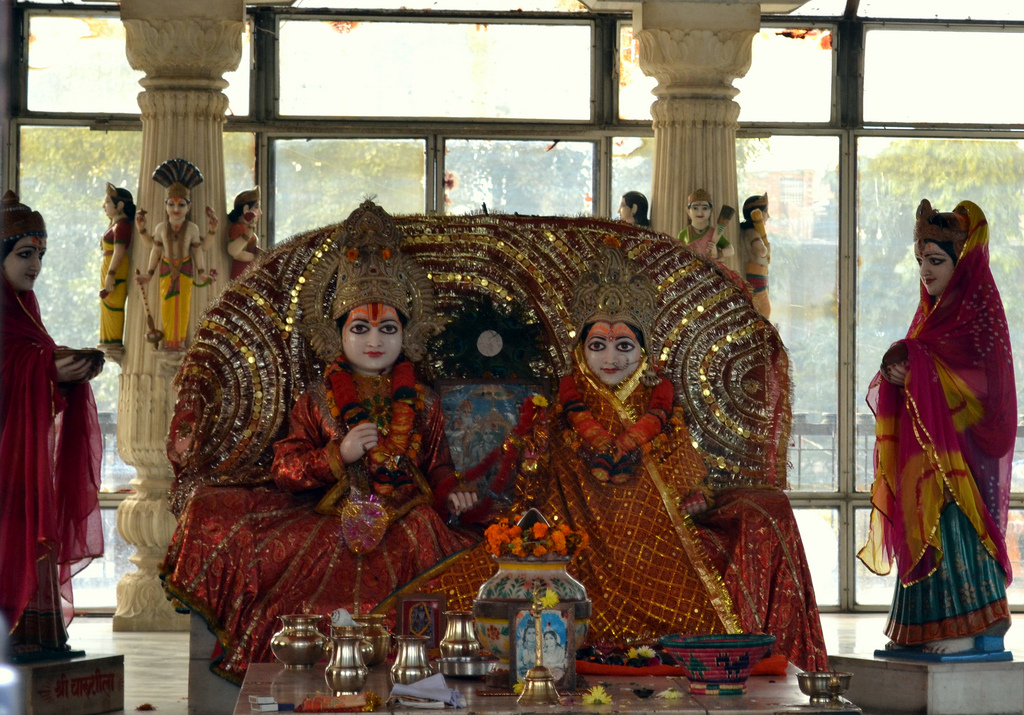 The idols of God Ram and Goddess Sita inside Vivaha Mandap